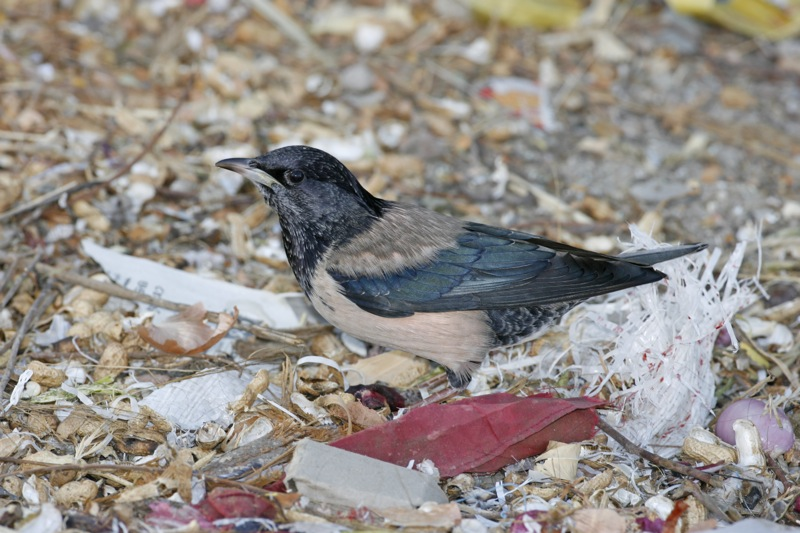 Rosy Starling (Pastor roseus), adult Sturnus roseus (Clements 4th ed) Pastor roseus (Clements 6th ed) Location: Little Rann of Kutch , Gujerat, India 28th. November 2006